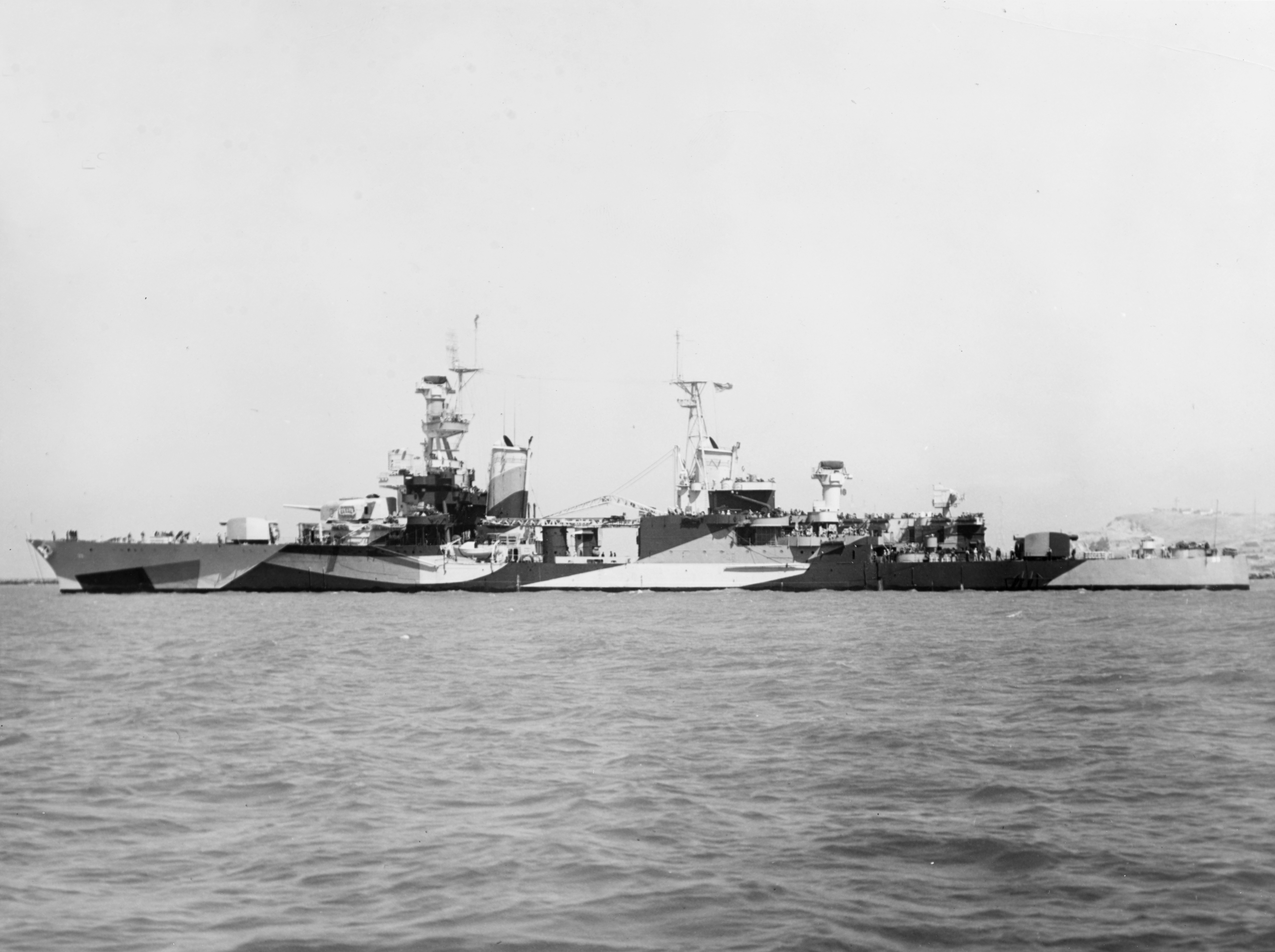 The U.S. Navy heavy cruiser USS Portland (CA-33) off the Mare Island Navy Yard, California (USA), 30 July 1944. Her camouflage is Measure 32, Design 7d.